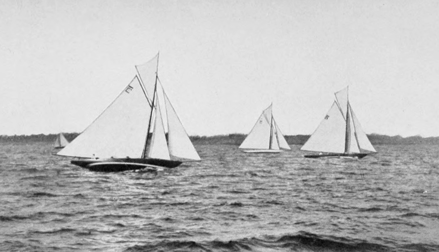 Taifun, Norman, and Örn at the 1912 Summer Olympics